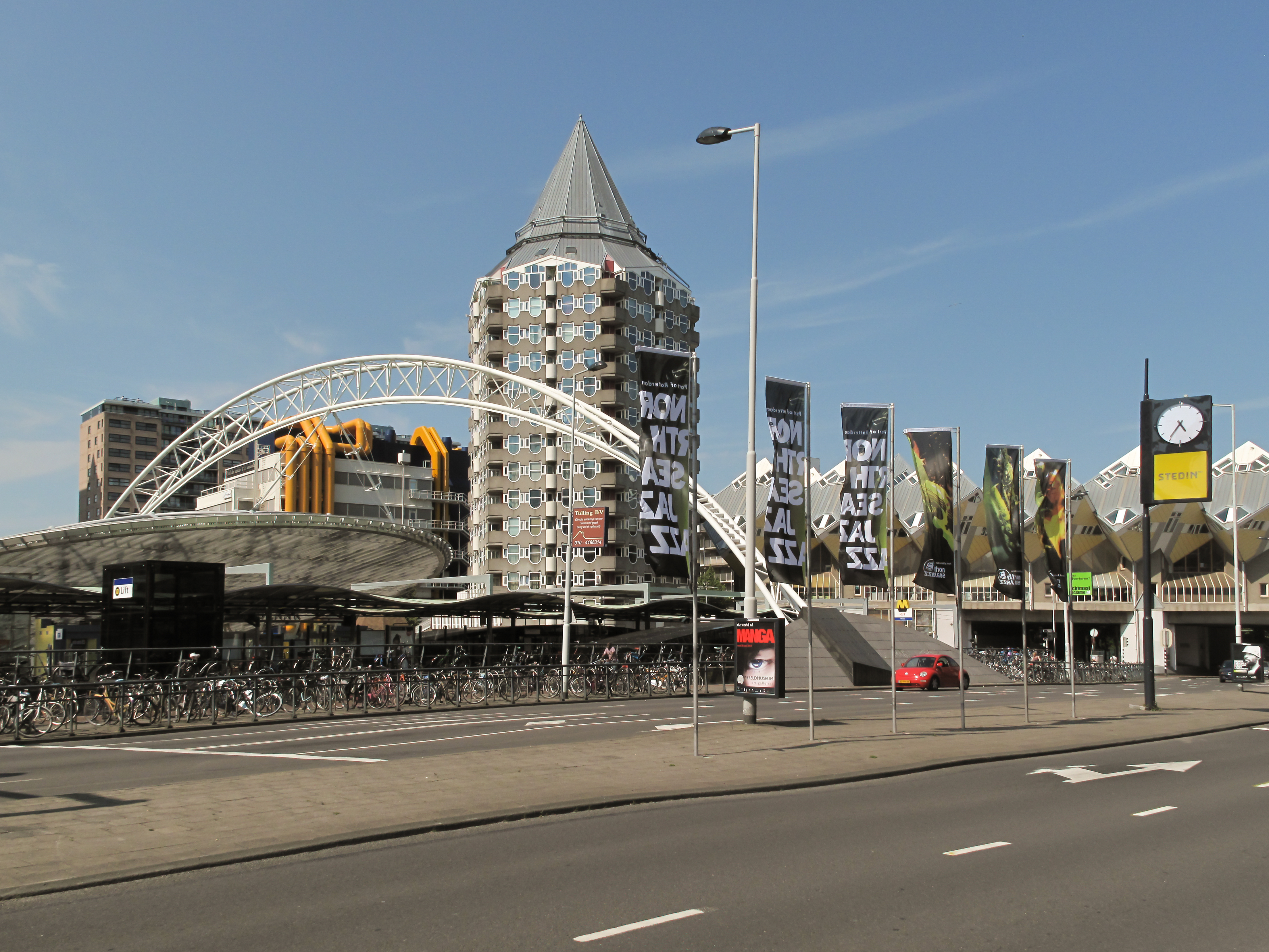 Rotterdam, railway station Blaak, library, het "Potlood" and cube houses